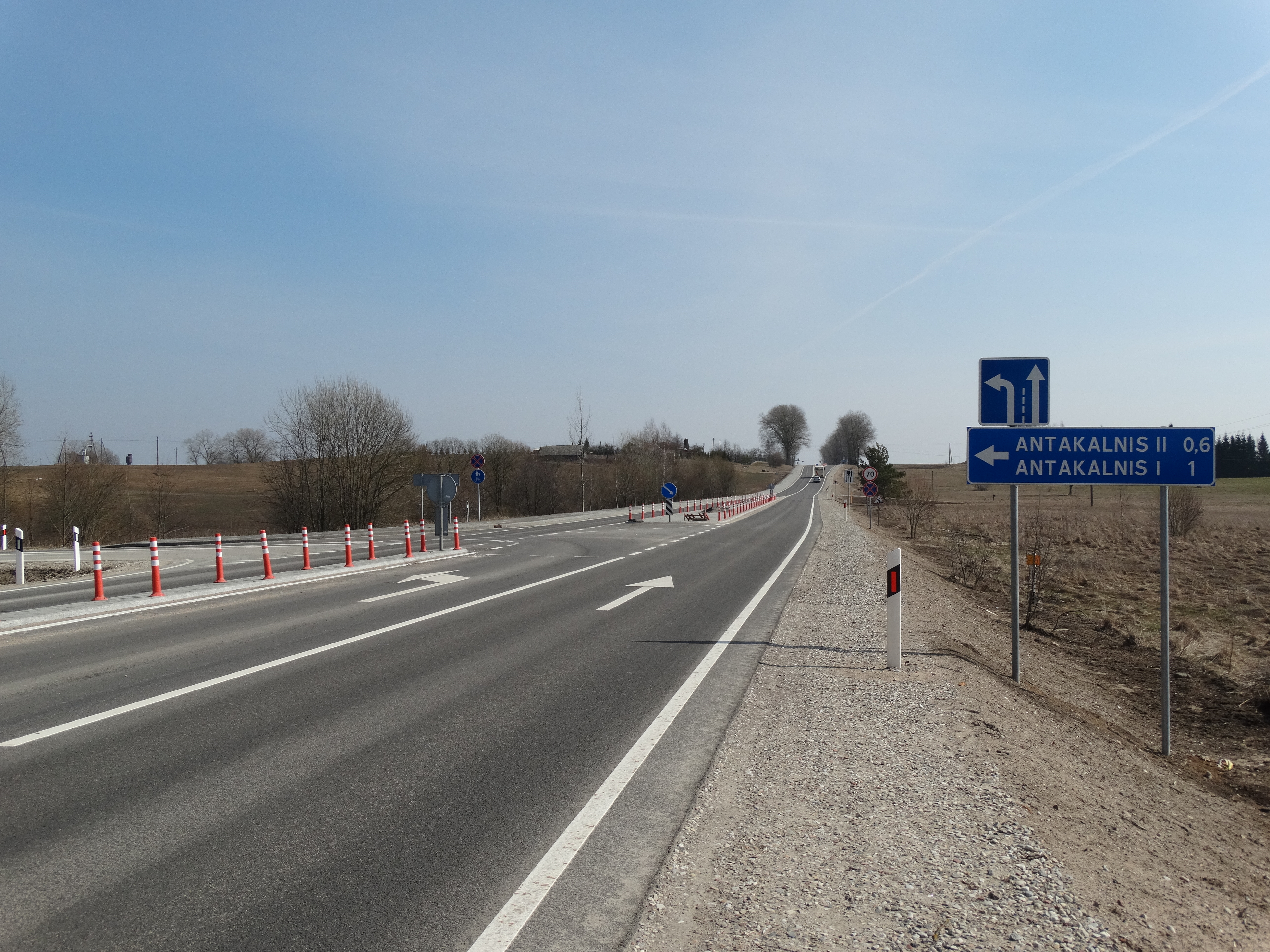 Antakalnis II, Ukmergė district, Lithuania